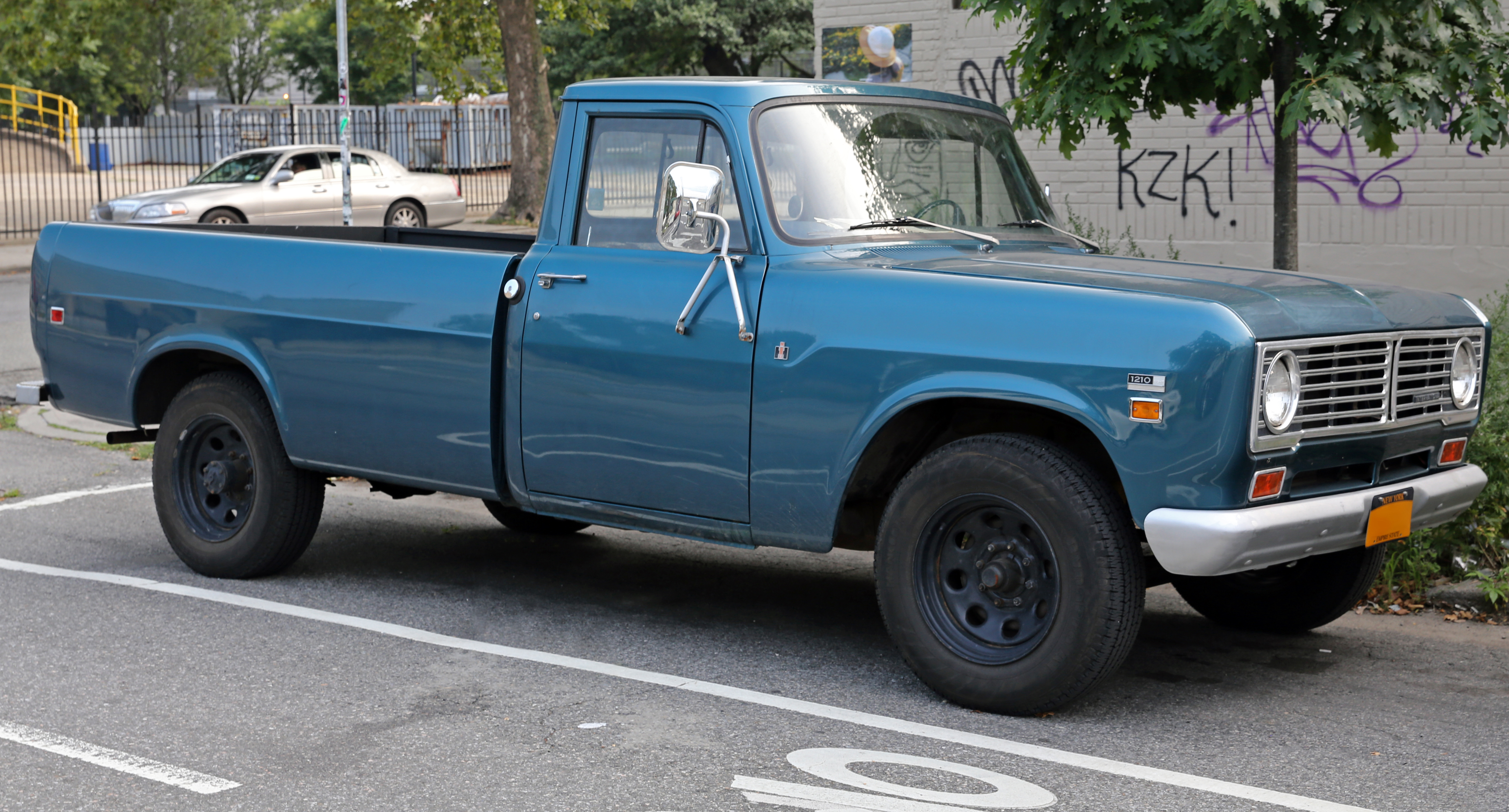 1973 International Harvester 1210 V8 pickup truck. This is a 4x2 with an unknown V8 engine and the long bed, built in the Springfield, OH assembly plant.